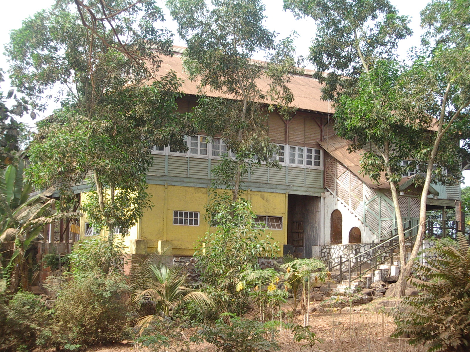 Hill Station Freetown Colonial Building 02